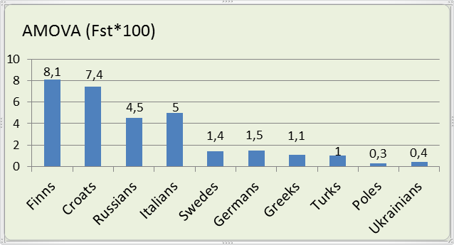 Genetic differences between populations of people Europe (Y-chromosome variation)